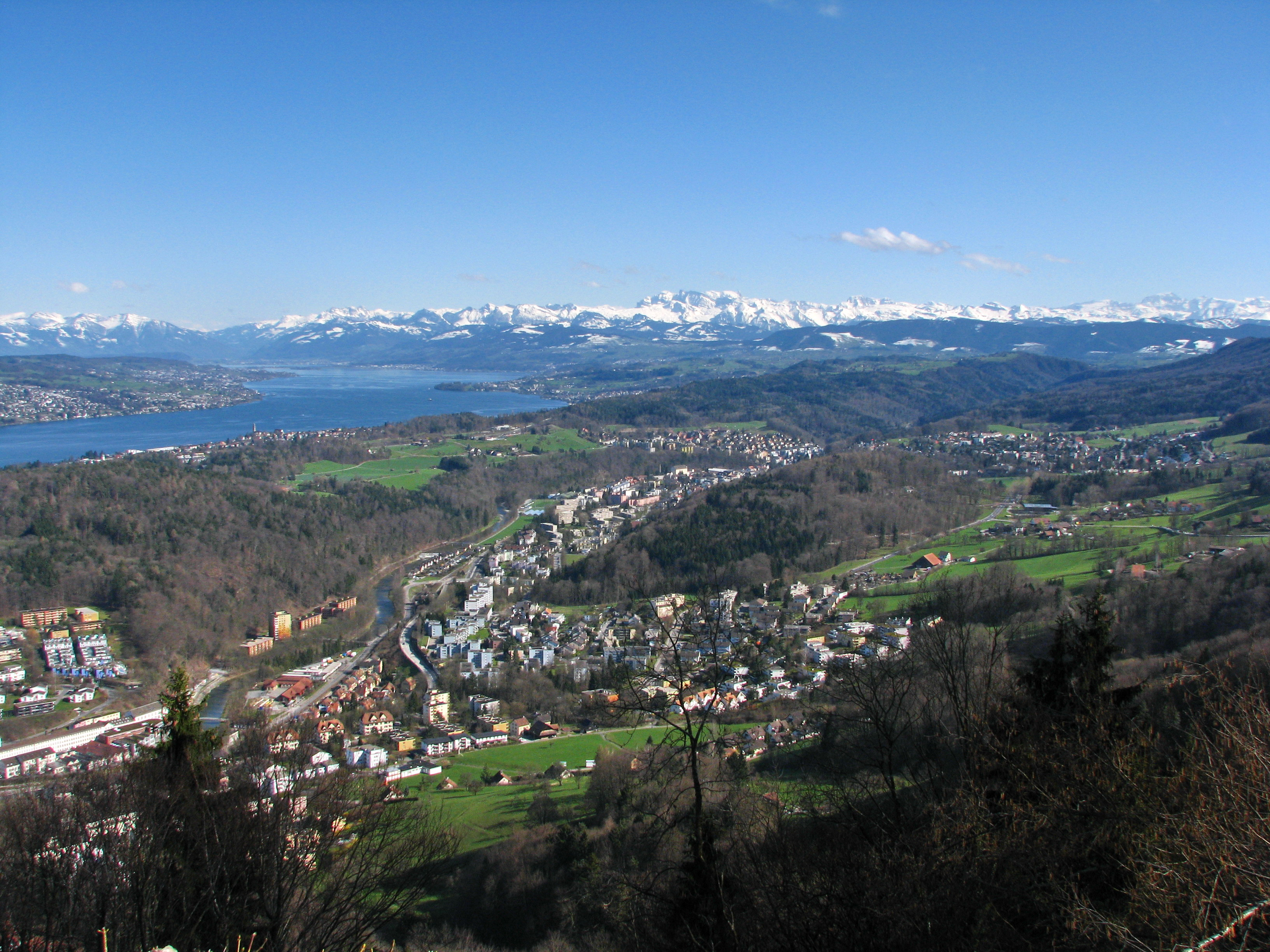 Sihl valley, Adliswil and Zürichsee in the background, as seem from Felsenegg.